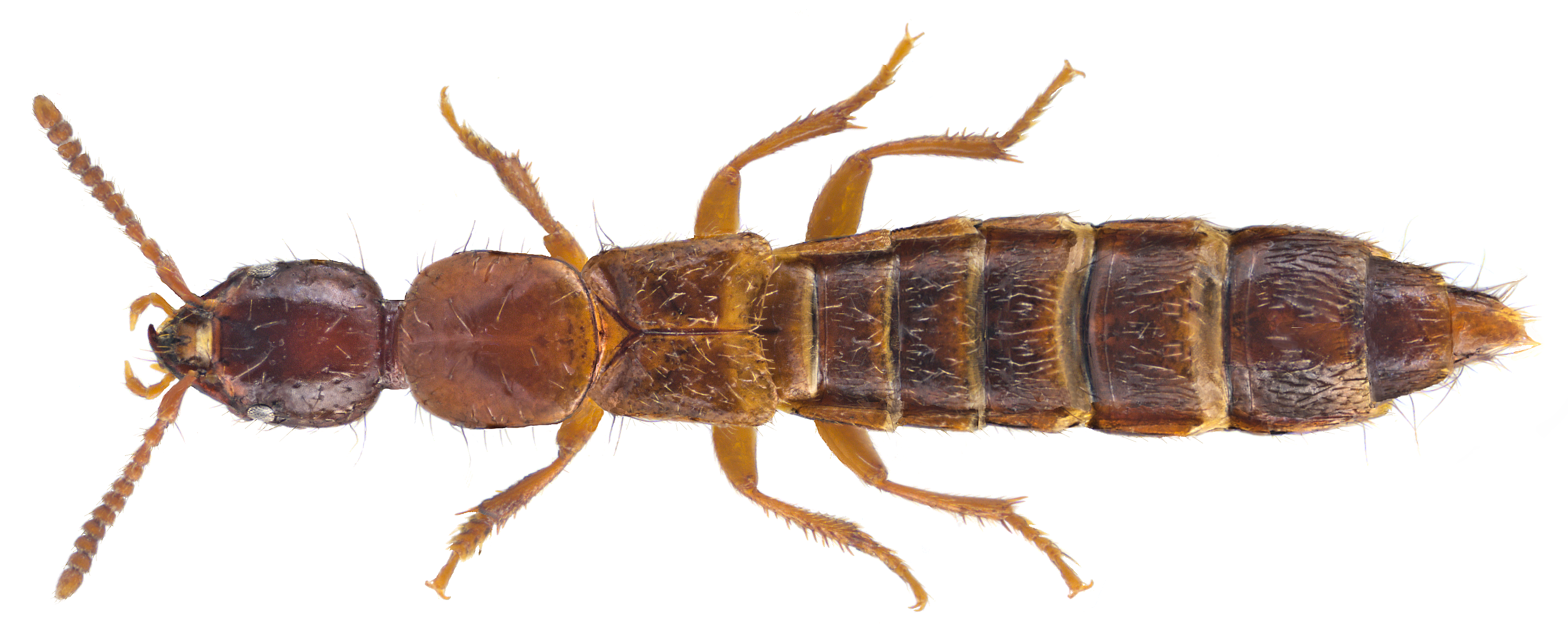 Family: Staphylinidae Size: 6,9 mm (4,5 to 8,8 mm mm) Origin: lives montane and alpine Ecology: living in different habitats in the mountains Location: Austria, Kaernten, Kleinkirchheim, 1850 m leg.det. U.Schmidt, 24.VI.1981 Photo: U.Schmidt, 2015